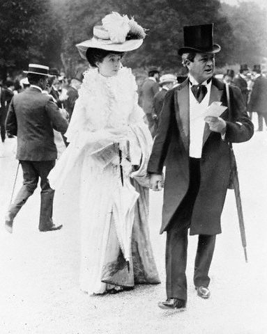 Paris, France --- W.K. Vanderbilt and his daughter, Consuelo, Duchess of Marlborough, at the races in Paris.